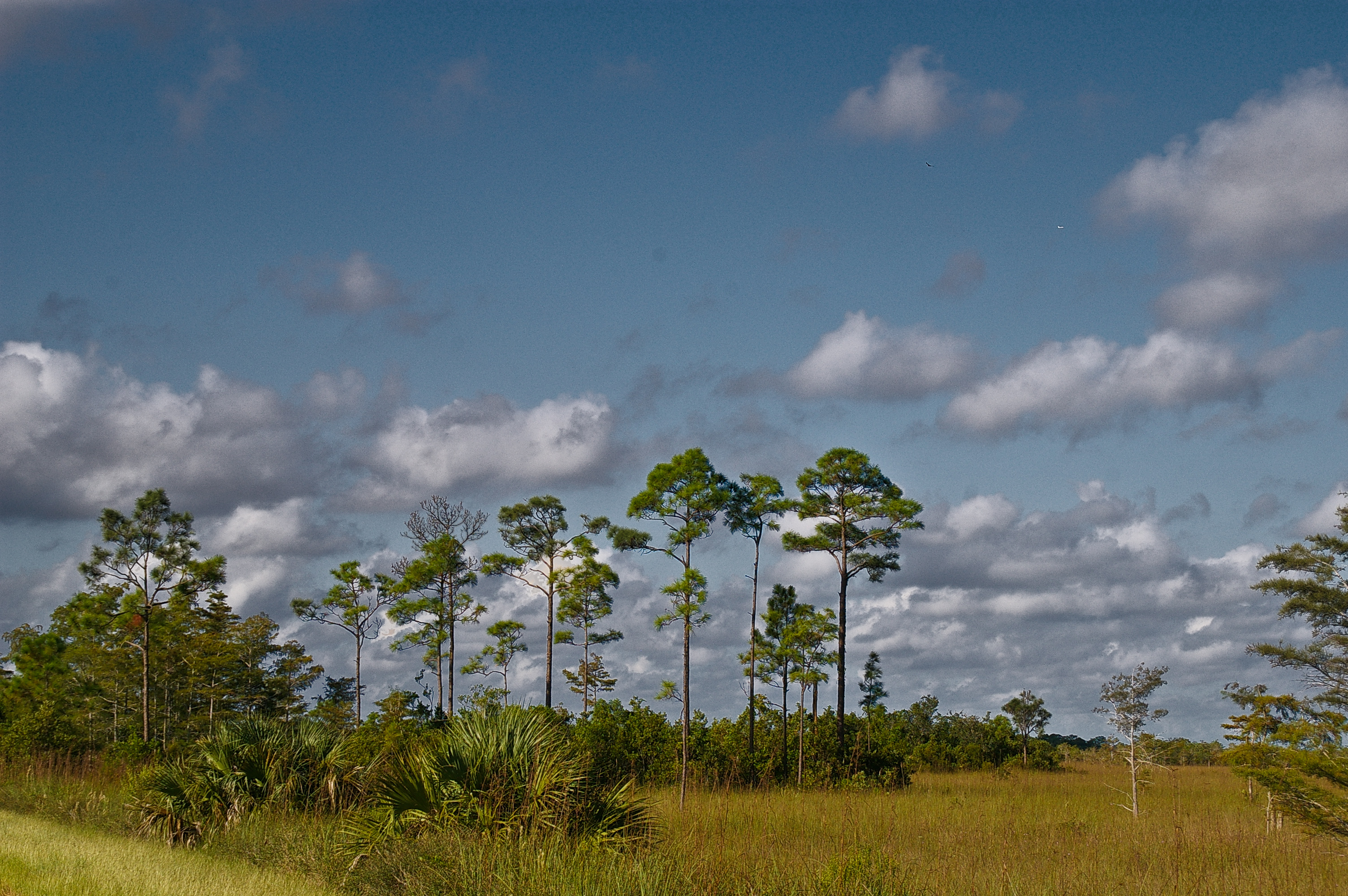 Everglades National Park, Florida